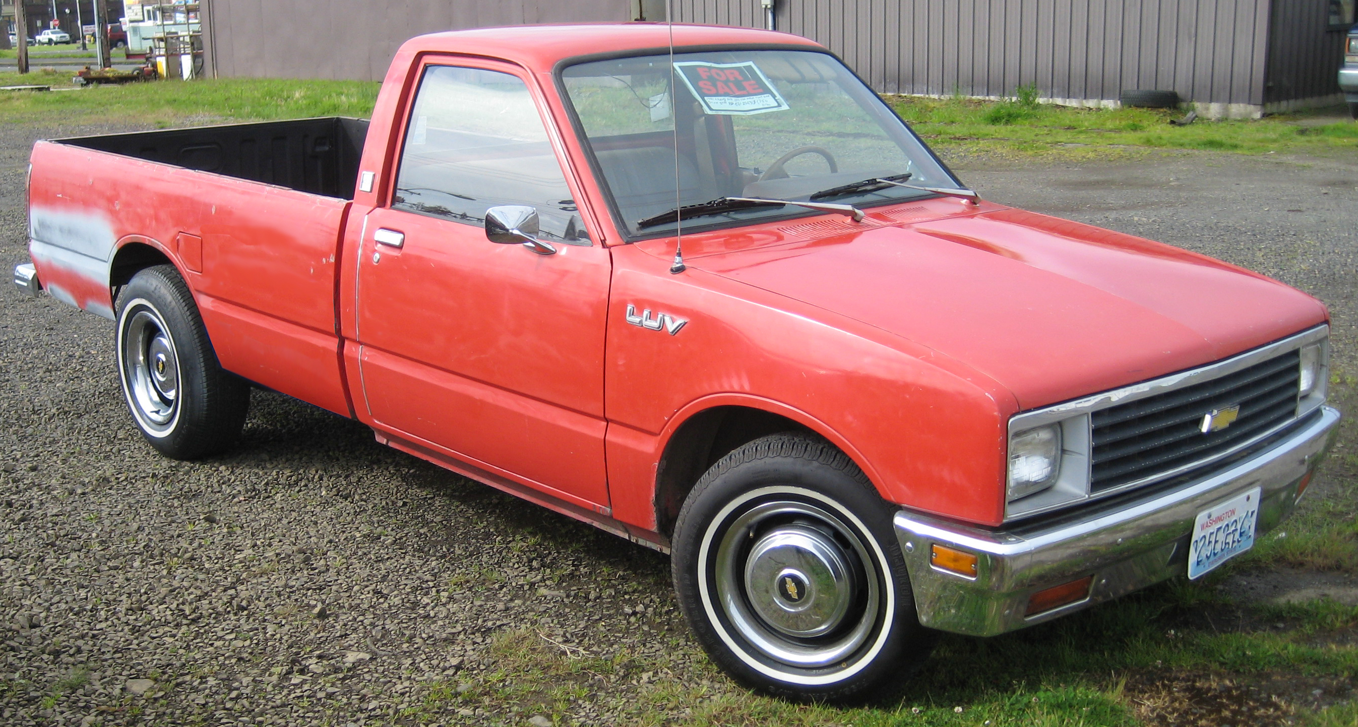 A second generation Chevy LUV, a rebadged Isuzu KB for North America.